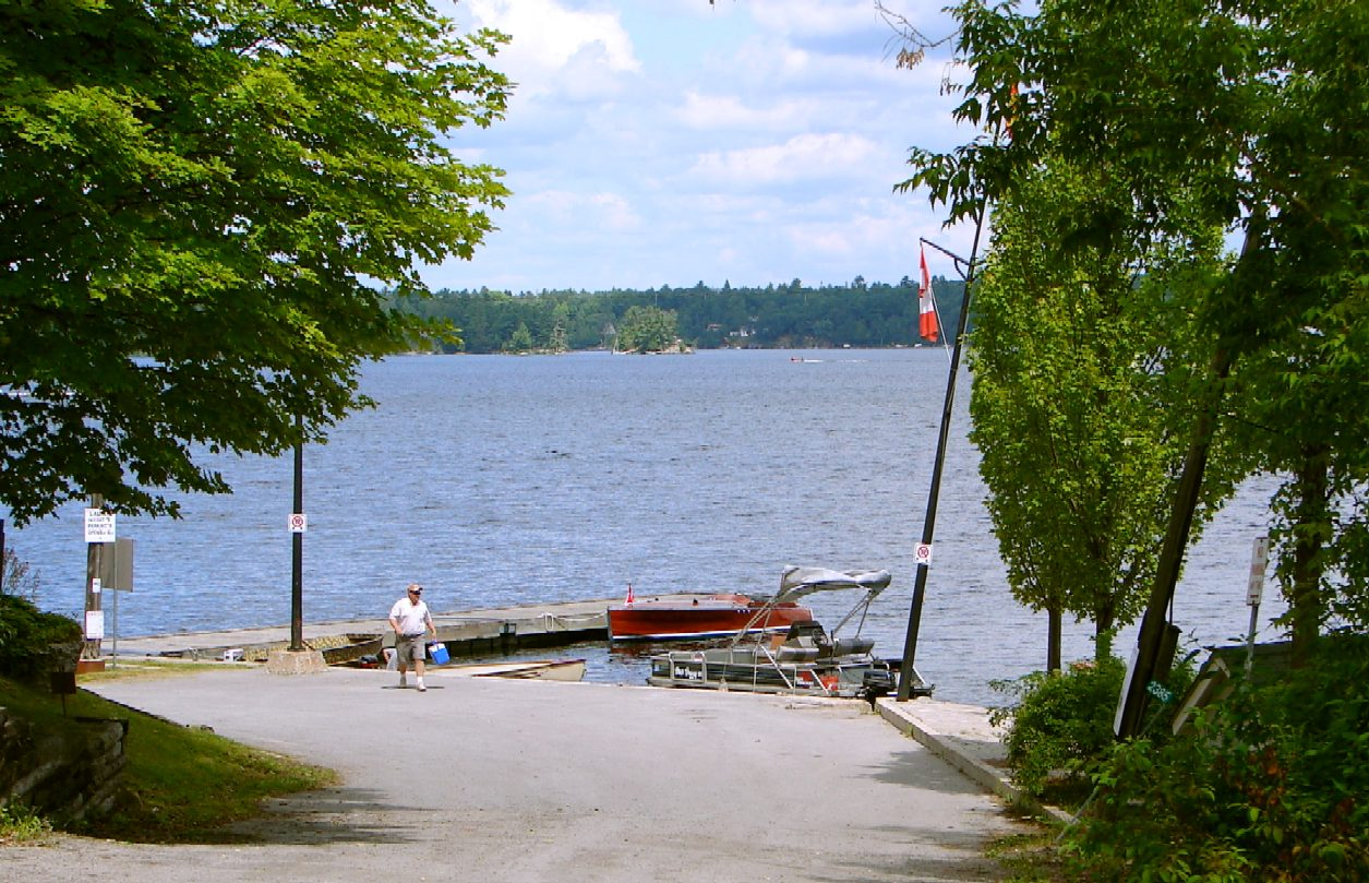 Crowes Landing with Stoney Lake in background (Douro-Dummer Township), Ontario, Canada